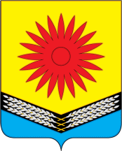 Coat of arms of Mijailovskoye, Severskaya Raion, Krasnodar Krai, Russia.